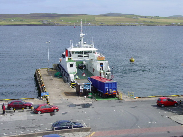 The Bressay Ferry at Lerwick. The Bressay Ferry seen here at Lerwick operates a regular service to the Island of Bressay in the background and can take fairly large vehicles. There is talk of linking the island to the Shetland Mainland with a bridge.